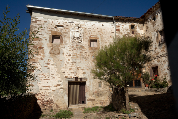 Oncala, Castilla y León, Soria, Spain; ; ref PM_073126_E_Oncala; ; Photographer: Paul M.R. Maeyaert; © Paul M.R. Maeyaert; ; Cultural heritage; Europeana; Europe/Spain/Oncala; Wiki Commons